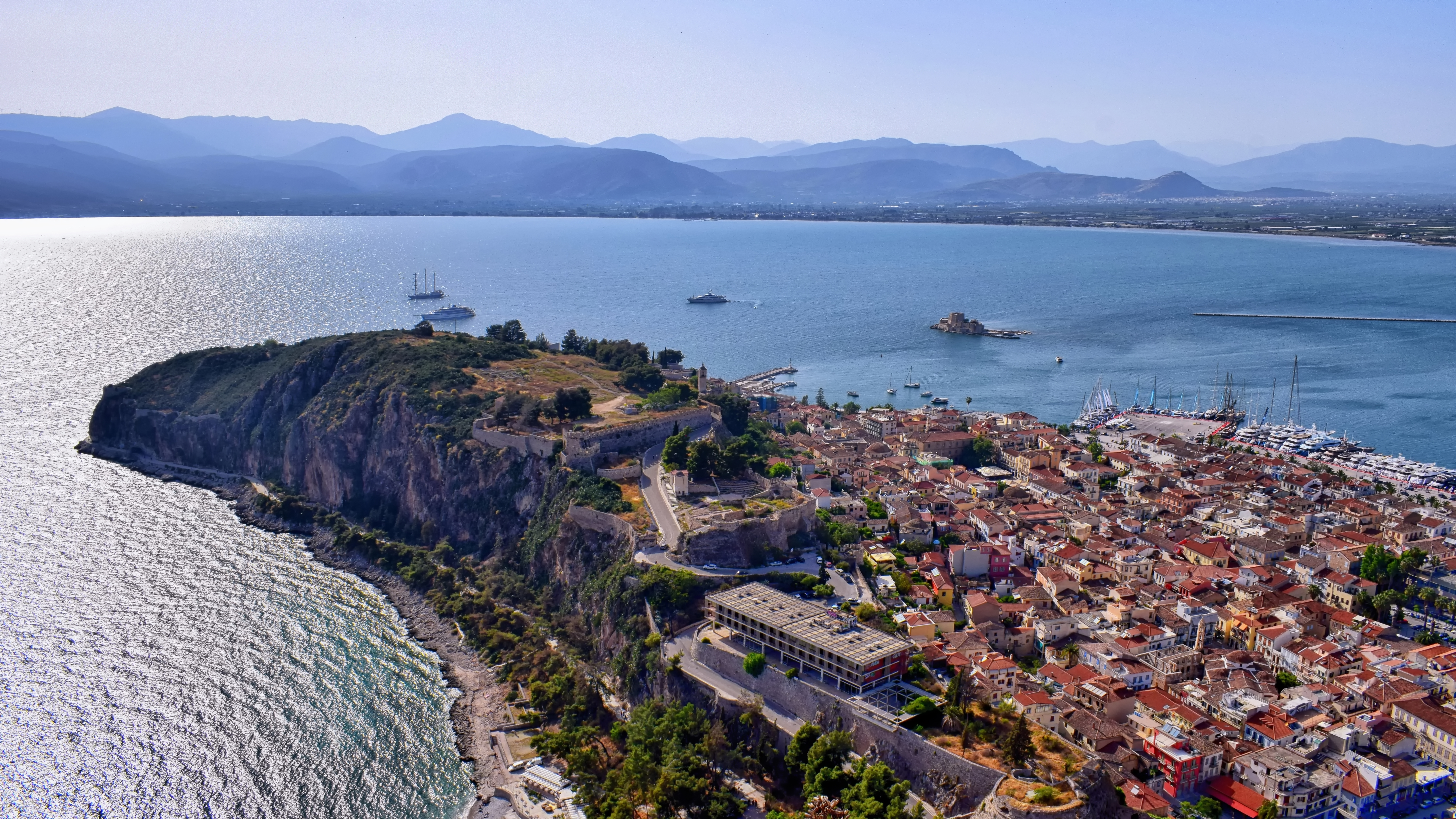 This is a photography of Natura 2000 protected area with ID GR2510003